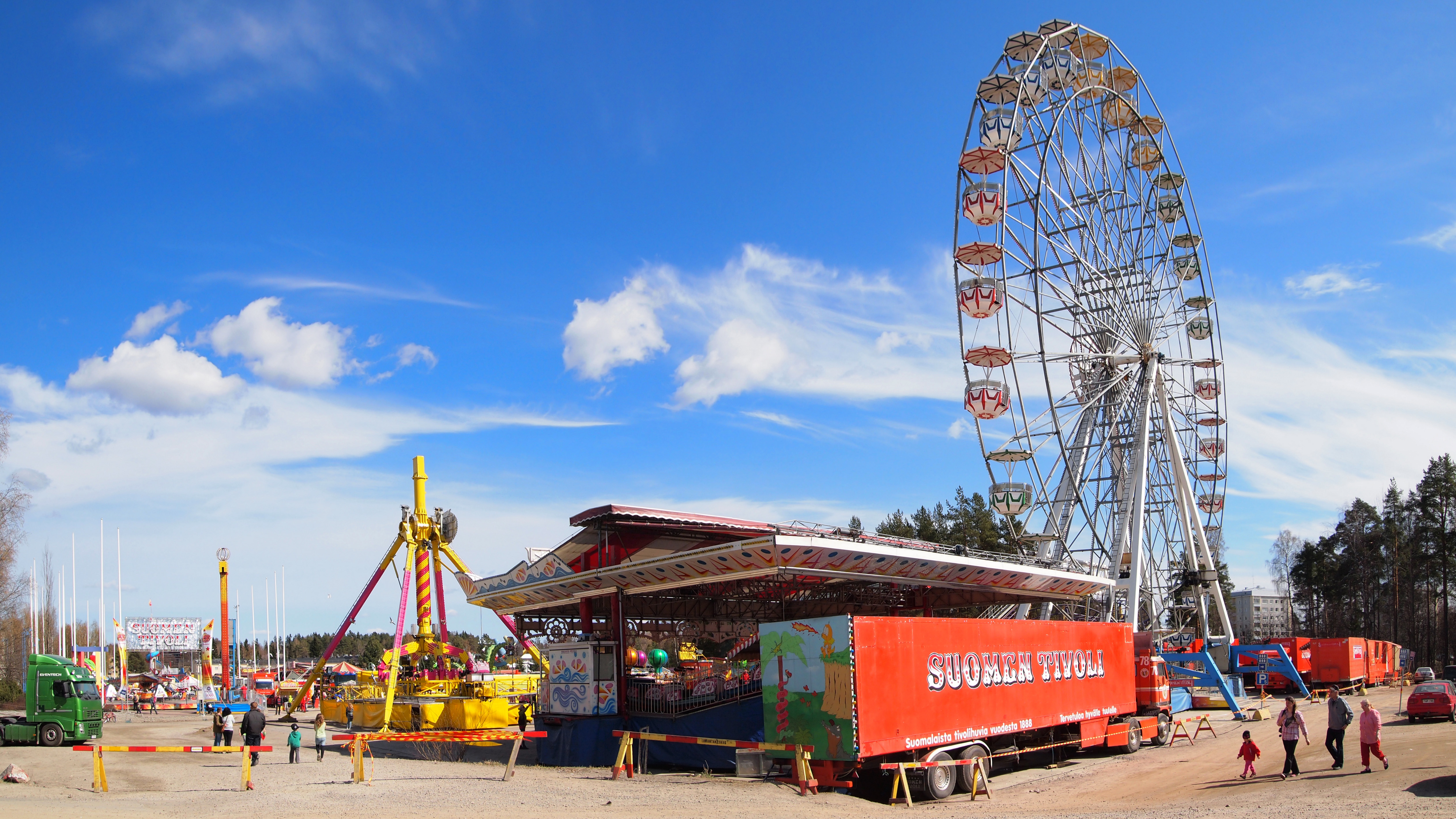 Funfairs "Suomen Tivoli" in Jyväskylä in April 2014. This photograph was taken with an Olympus E-PL1